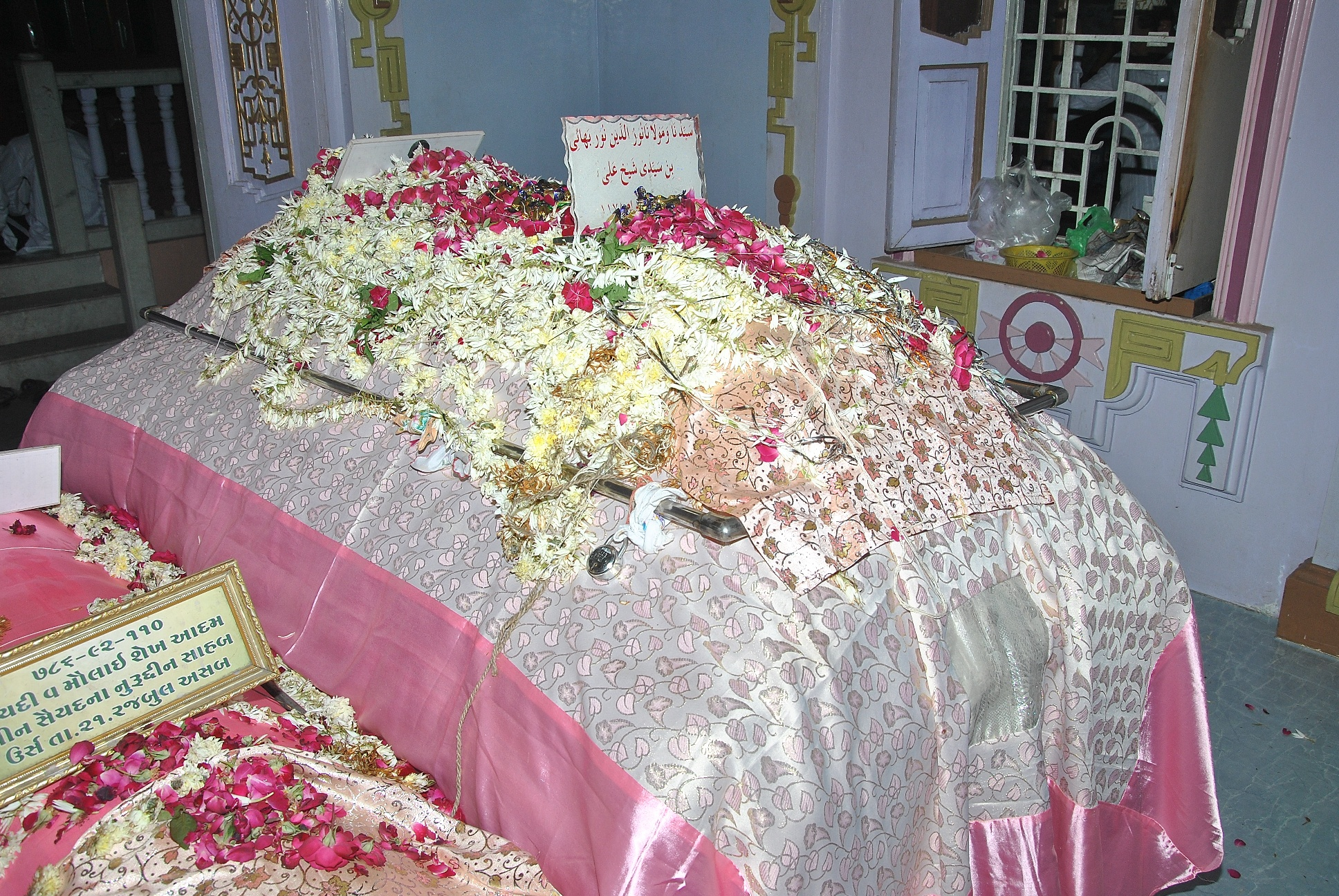 the tomb of syedna nuruddin saheb surat